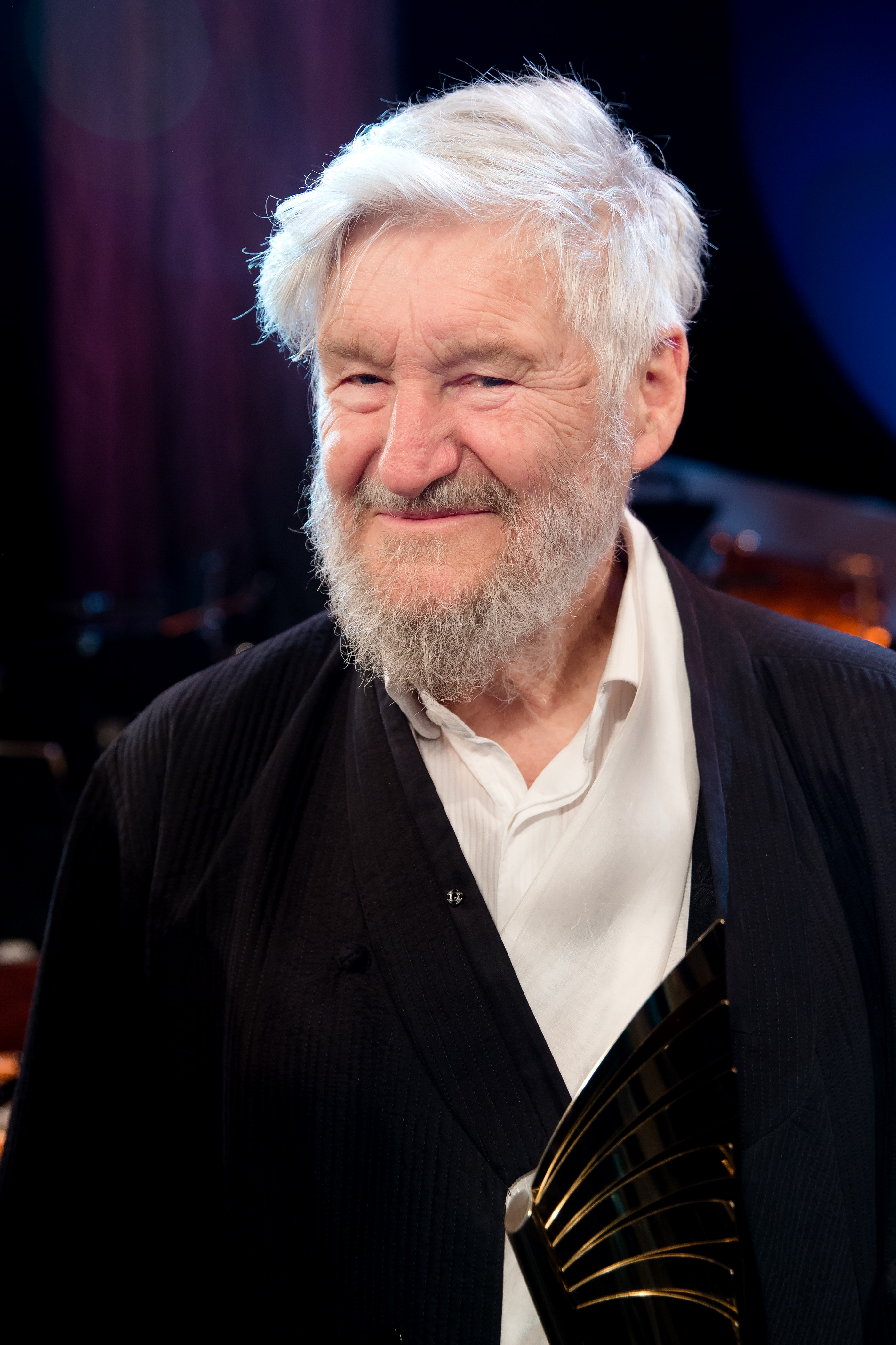 Achim Freyer, Nestroy Theatre Awards 2015 (Ronacher, Vienna, Austria).